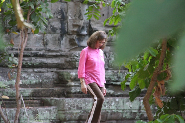 Nancy Kwan was in Cambodia for the documentary To Whom It May Concern: Ka Shen's Journey on March 5, 2007. The photo was taken by the documentary's unit photographer, Jonathan Lee.